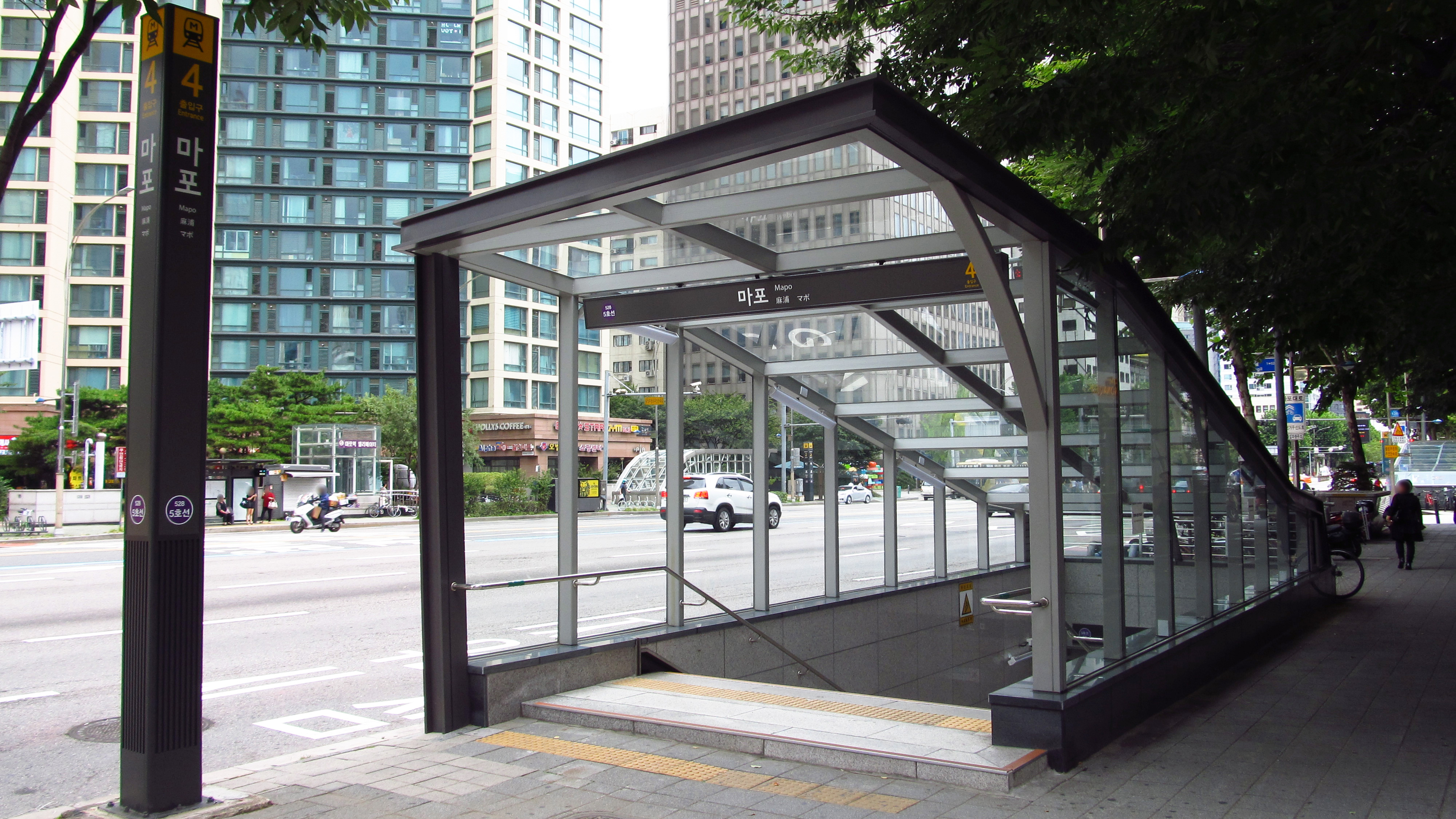 The no.4 entrance to Mapo Station on the Seoul Metro Line 5 in Mapo-gu, Seoul, Republic of Korea(South Korea)